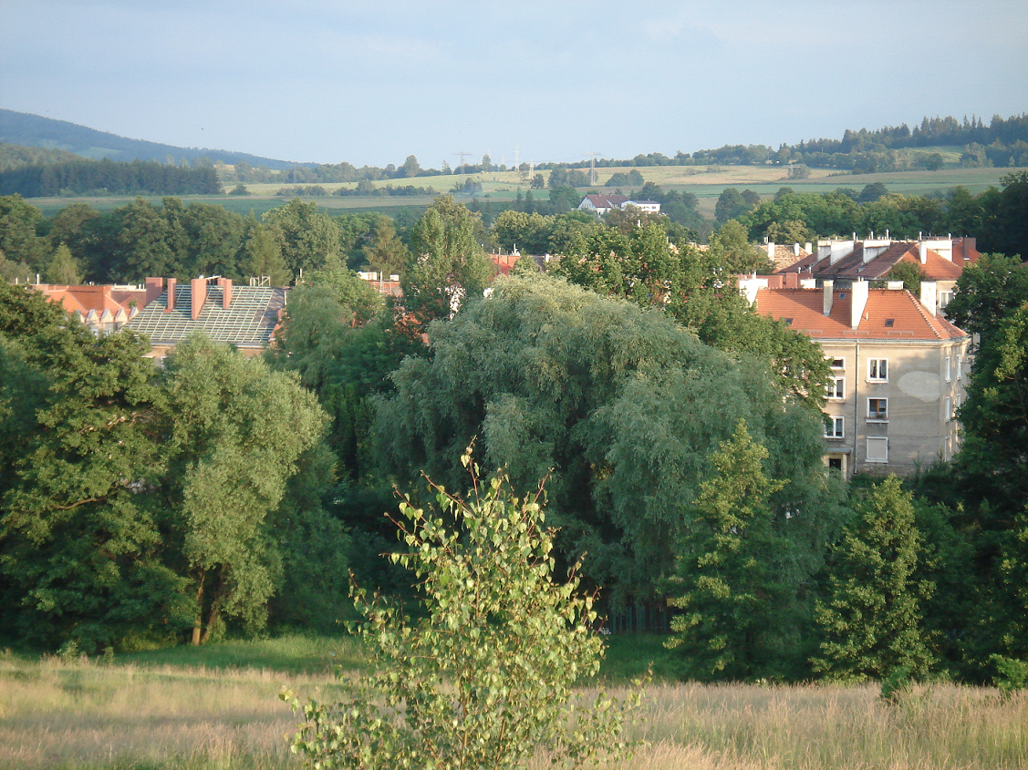 Rusinowa at sunset.